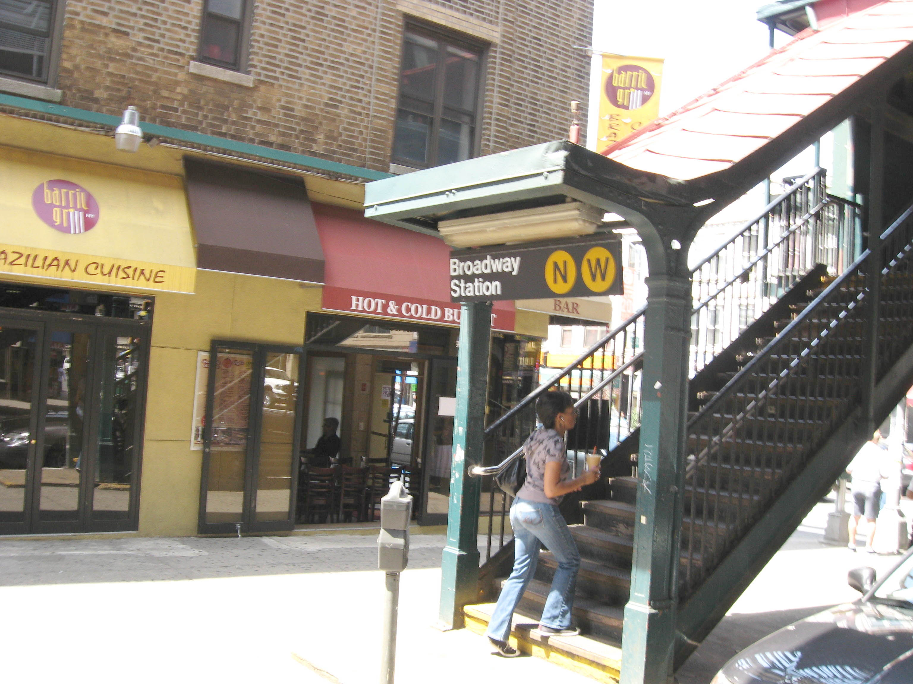 Looking west on a sunny early afternoon at Broadway (BMT Astoria Line) street stair. ZIP 11102.